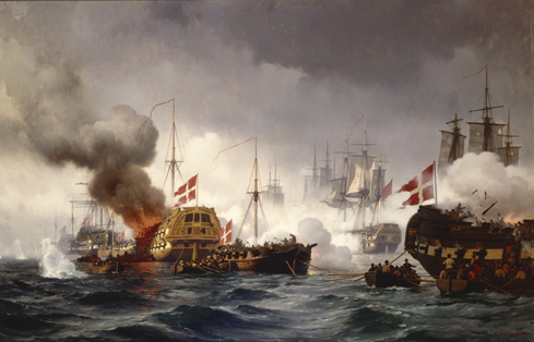 Scene from the battle of Copenhagen 1801. In the center, the 20 gun radeau commanded by Muller, foreground the unrigged frigate "Kronborg", in the background the burning "Dannebrog" fighting what must be "The Clatton".